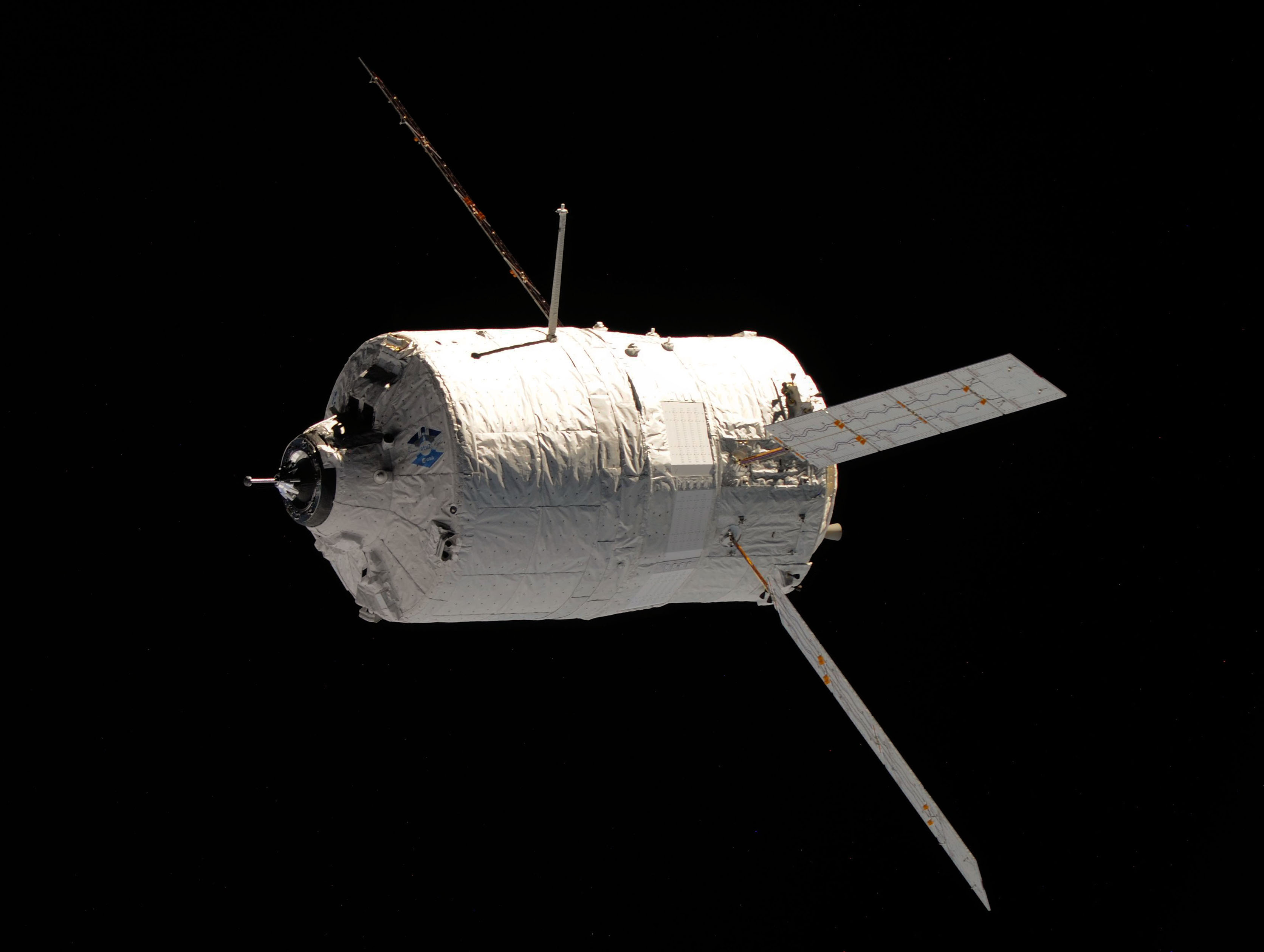 ISS026-E-037172 (24 Feb. 2011) --- Surrounded by the blackness of space, the European Space Agency's "Johannes Kepler" Automated Transfer Vehicle-2 (ATV-2) approaches the International Space Station. Docking of the two spacecraft occurred at 10:59 a.m. (EST) on Feb. 24, 2011.